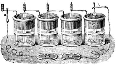 Callaud battery of 4 elements